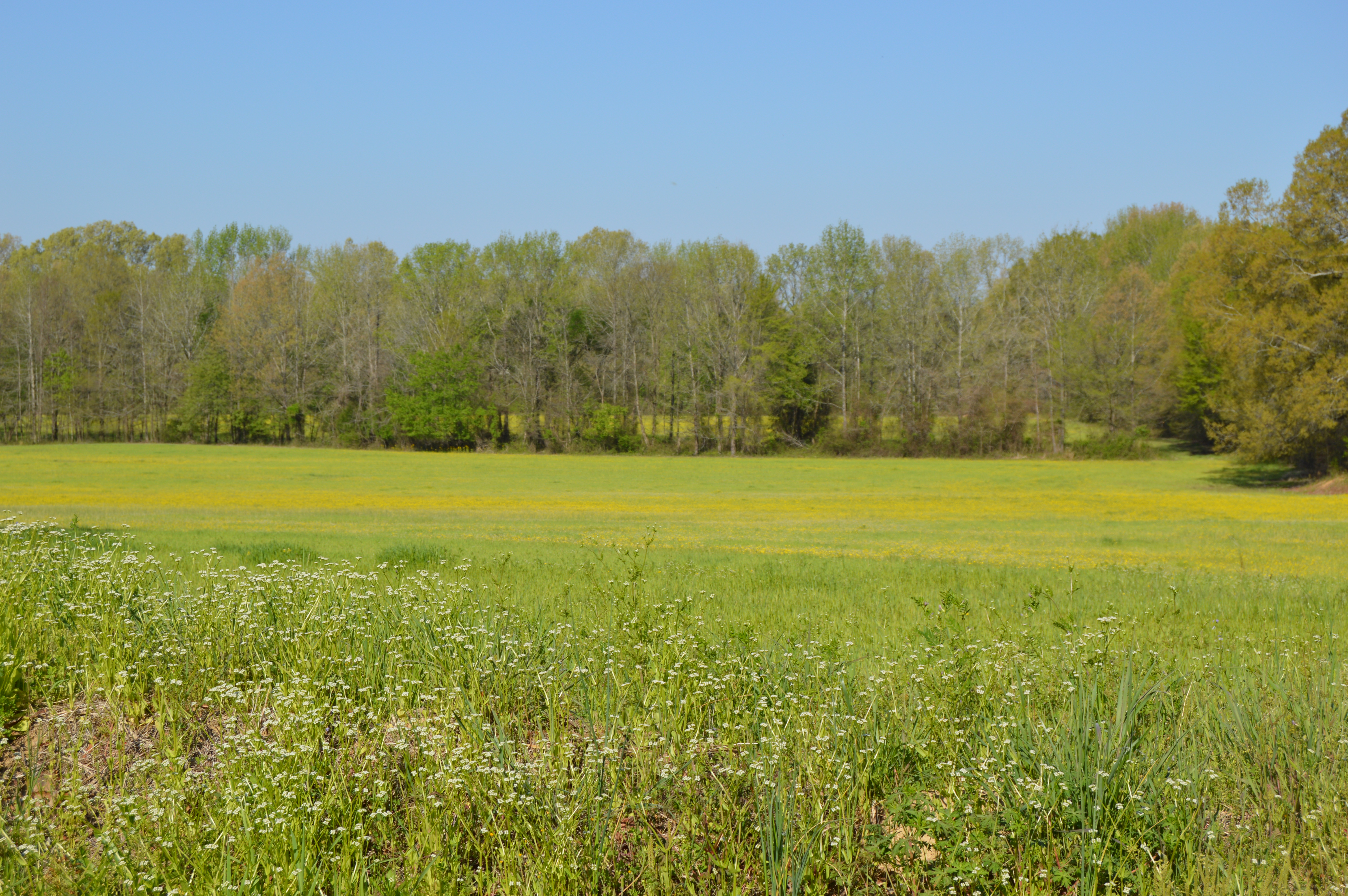 Fields on the western side of Harper Road north of Corinth in Alcorn County, Mississippi, United States. The field encompasses Union field fortifications built during the Siege of Corinth, and as the Federal Siege Trench, it is listed on the National Register of Historic Places.